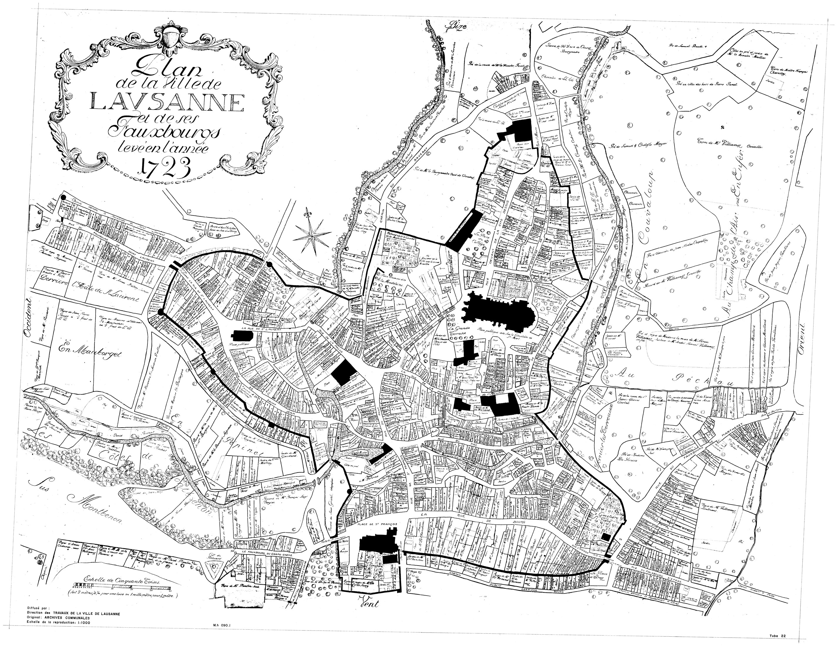 Map of the city of Lausanne (Switzerland) and of its suburbs, in 1723.